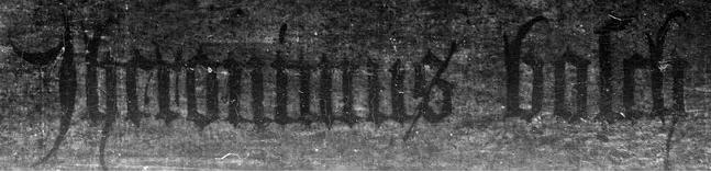 The Last Judgment [detail].